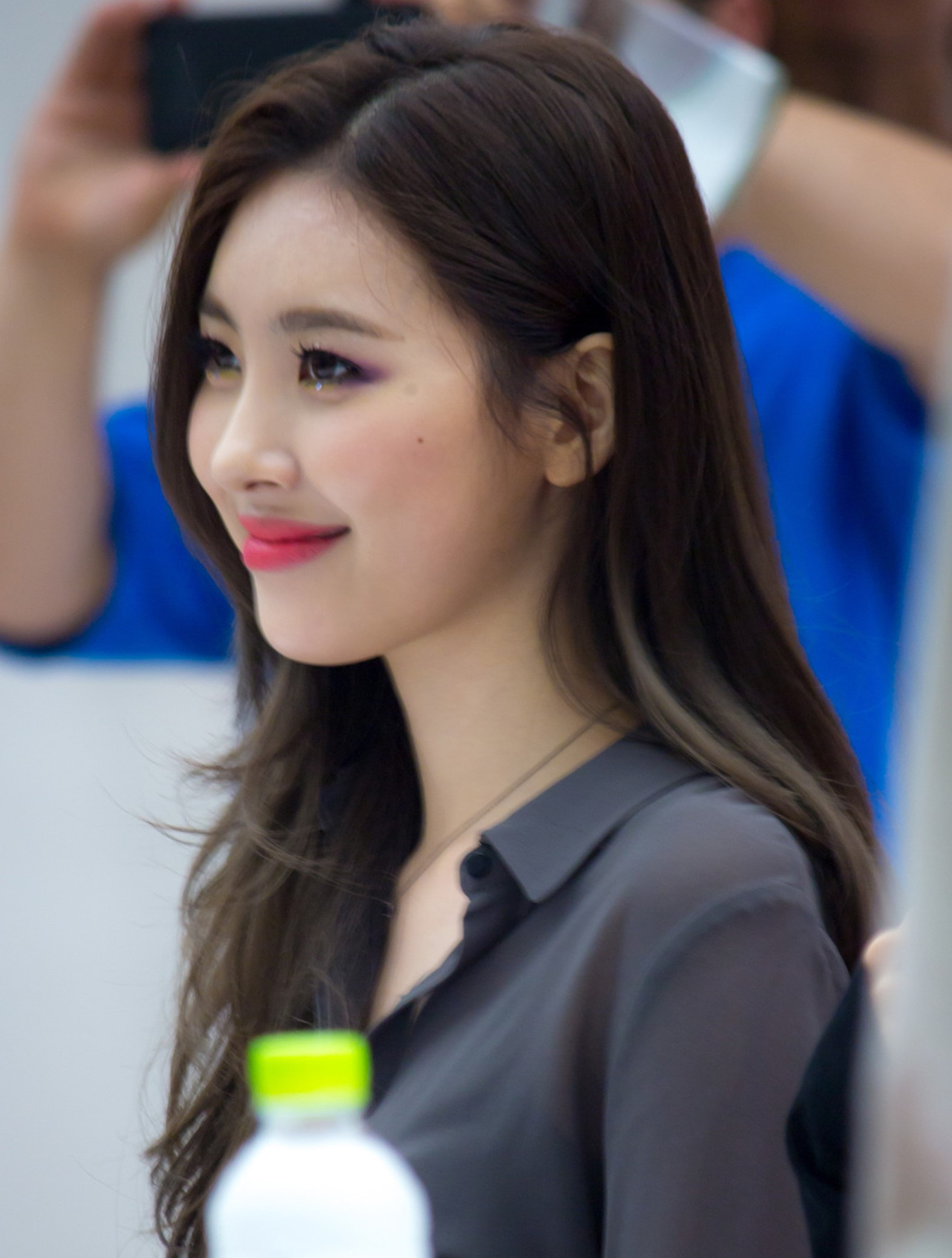 Lee Sun-mi at a fanmeet on July 15, 2016.